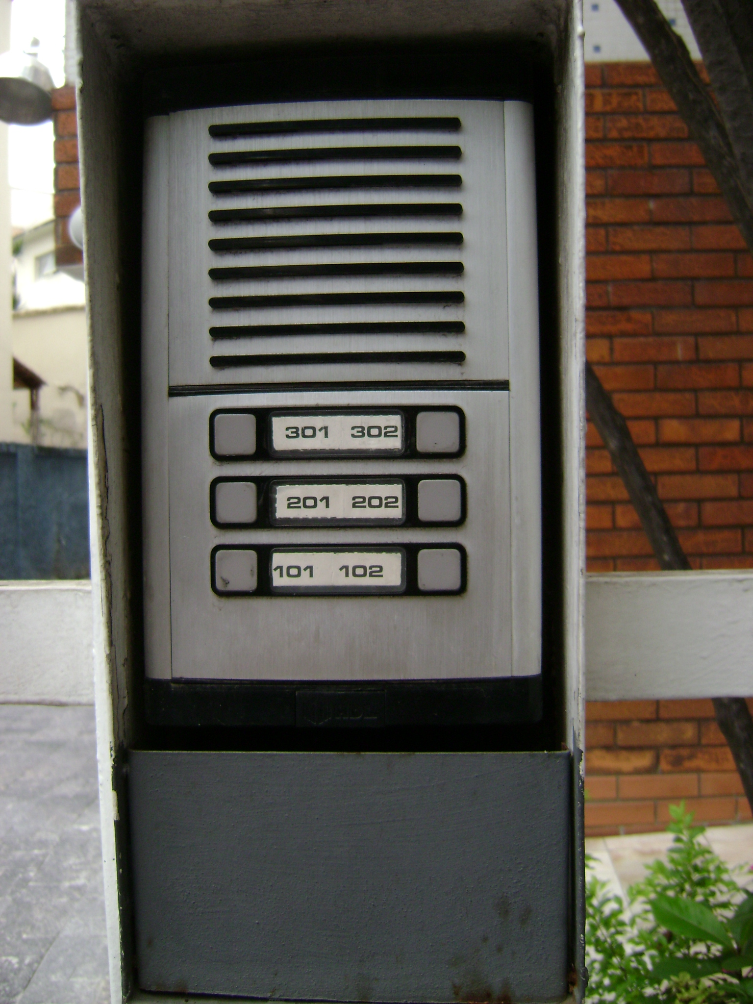 interfone